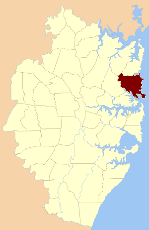 original location of the parish within Cumberland County, New South Wales (Sydney area)